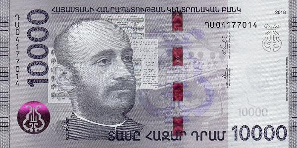 10000 dram 2018 Obverse